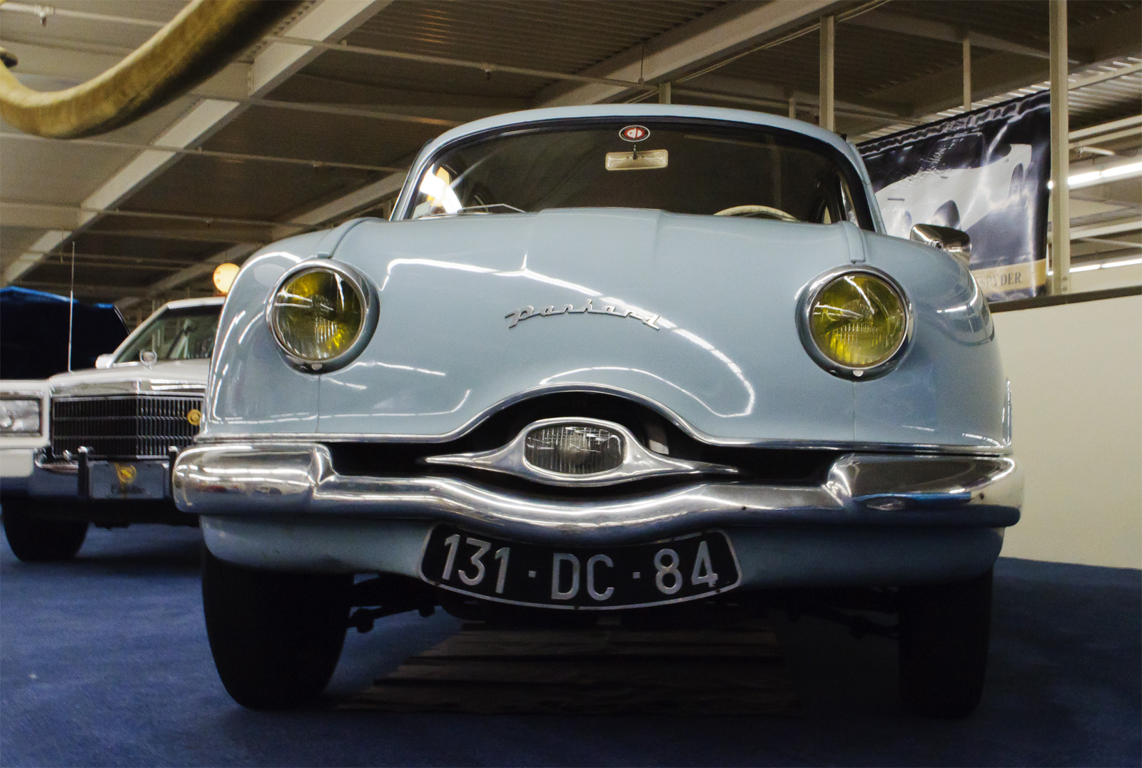 Seen at the famous Auto Collection at The Quad (formerly Imperial Palace), Las Vegas. While Panhard is a very old brand, by the 1950s it was concentrating on economy cars, and had merged with Citroën in 1955 and was selling its cars via integrated Citroën-Panhard distribution networks. This Dyna is on sale for $29,500, and quite a sight. Lightweight (1,630 pounds, even lighter than a Volkswagen Beetle) and relatively powerful (50 brake horsepower), this was quite a nice car to drive. Panhard Dyna Z was available in the US, with a 1958 price tag of $2,000 which was on par with a low-end American domestic car, though this is a French domestic example, between the license plate, the yellow headlights (unique requirement for France), and the center foglight which was usually omitted from US-market versions.